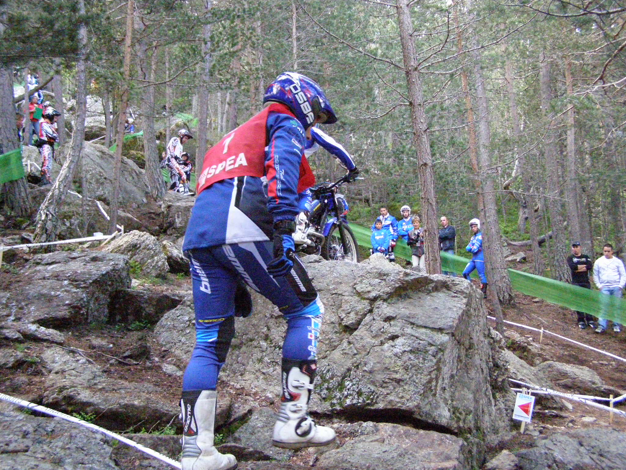 Matteo Grattarola (Sherco, Italy) followed by his assistant in La Rabassa (Sant Julià de Lòria, Andorra), during the 2010 UEM Trial European Championship